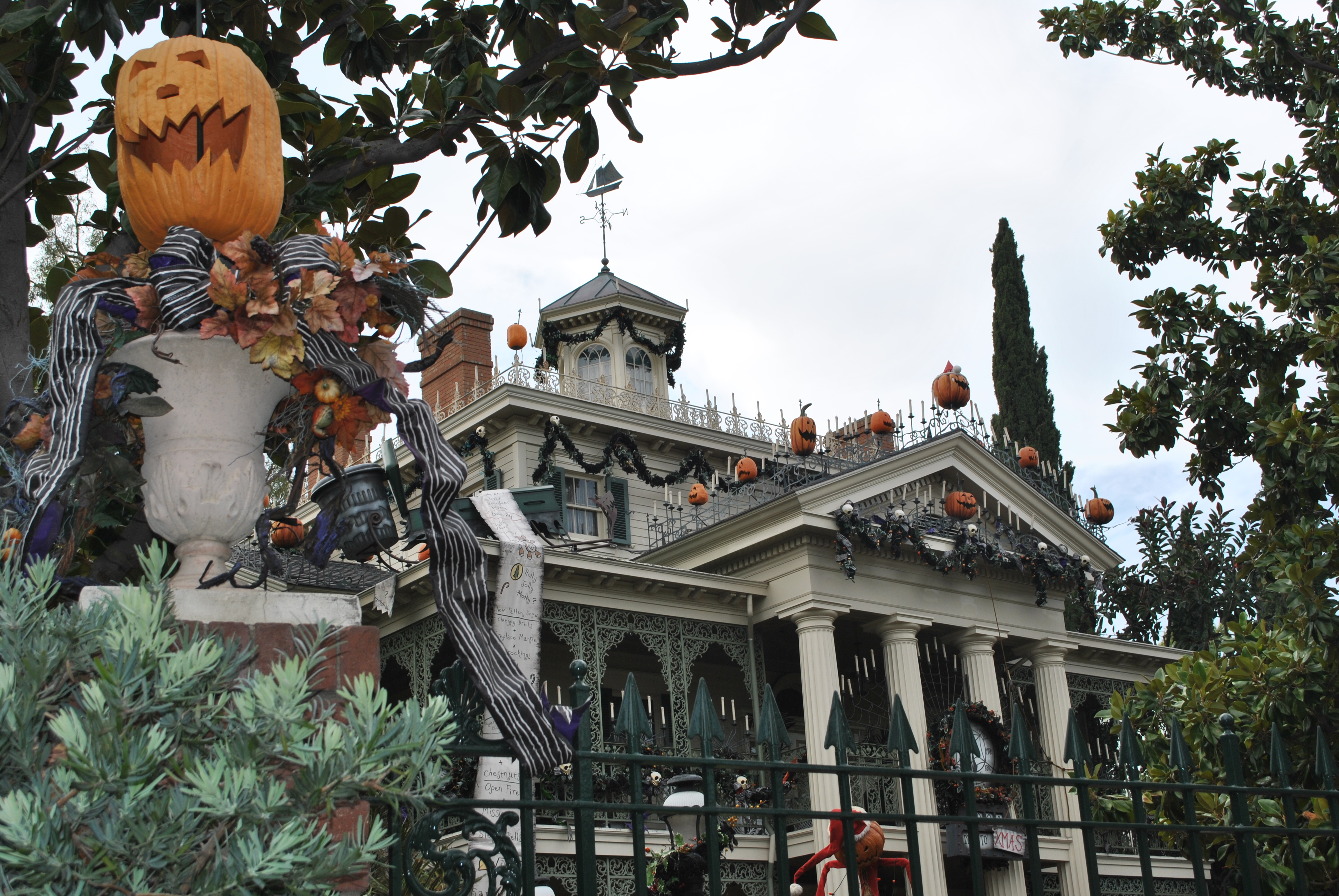 Image originally published in Queer Places: Retracing the Steps of LGBTQ people around the World Authored by Elisa Rolle